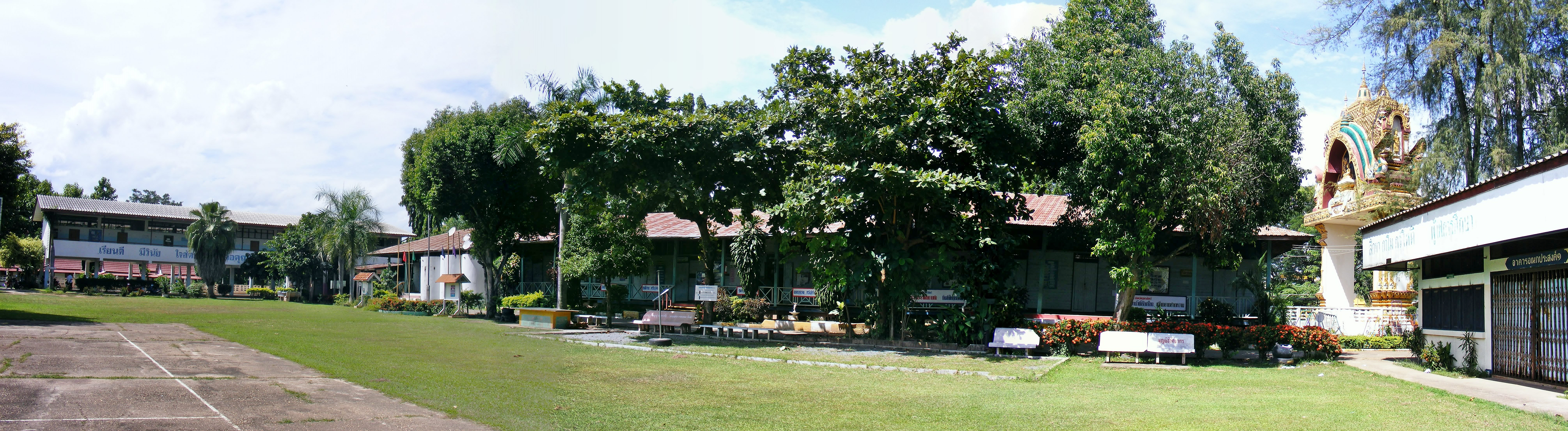 Ban Khung Taphao School.Location: Ban Khung Taphao School Ban Khung Taphao, Khung Taphao subdistrict, Mueang Uttaradit, Uttaradit Province, Thailand.